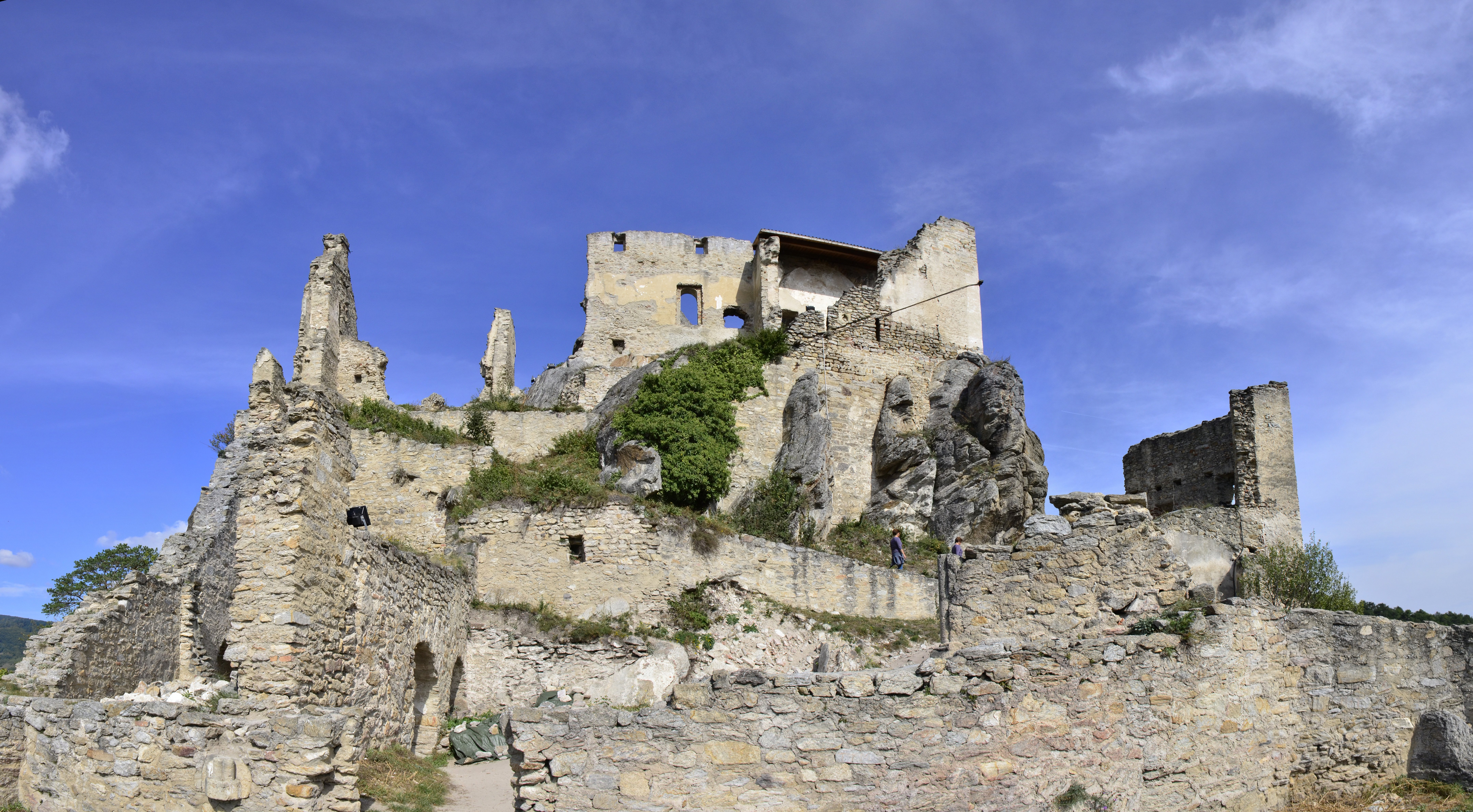 Dürnstein castle (ruins)